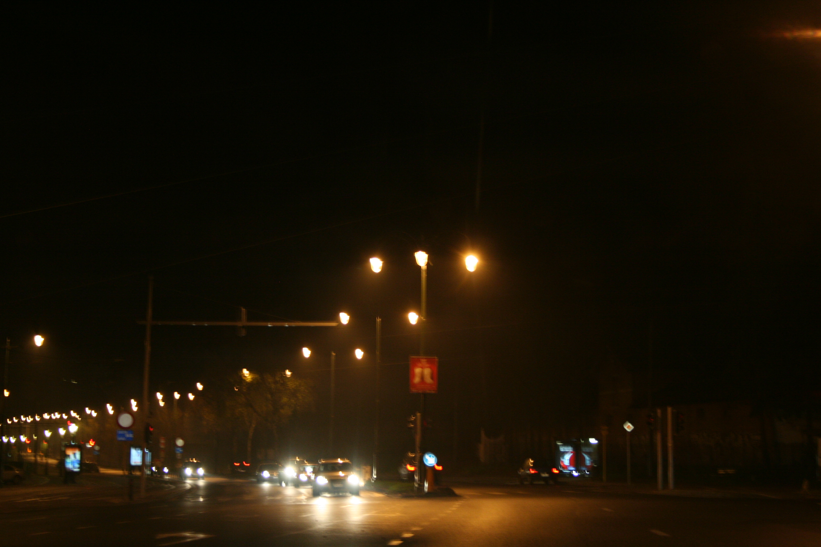 Beginning of the Brussels external surrounding boulevards next to the Boitsfort's Hippodrome.